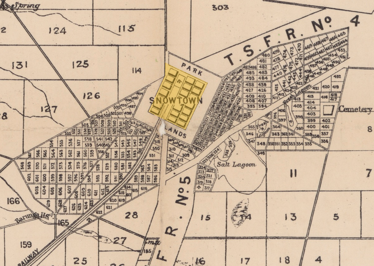 Plan of freshly-surveyed Government Town of Snowtown within the Hundred of Barunga, 1880 Derived from public domain map of the Hundred of Barunga: ("Hundred of Barunga, 1880 (22268212494).jpg")